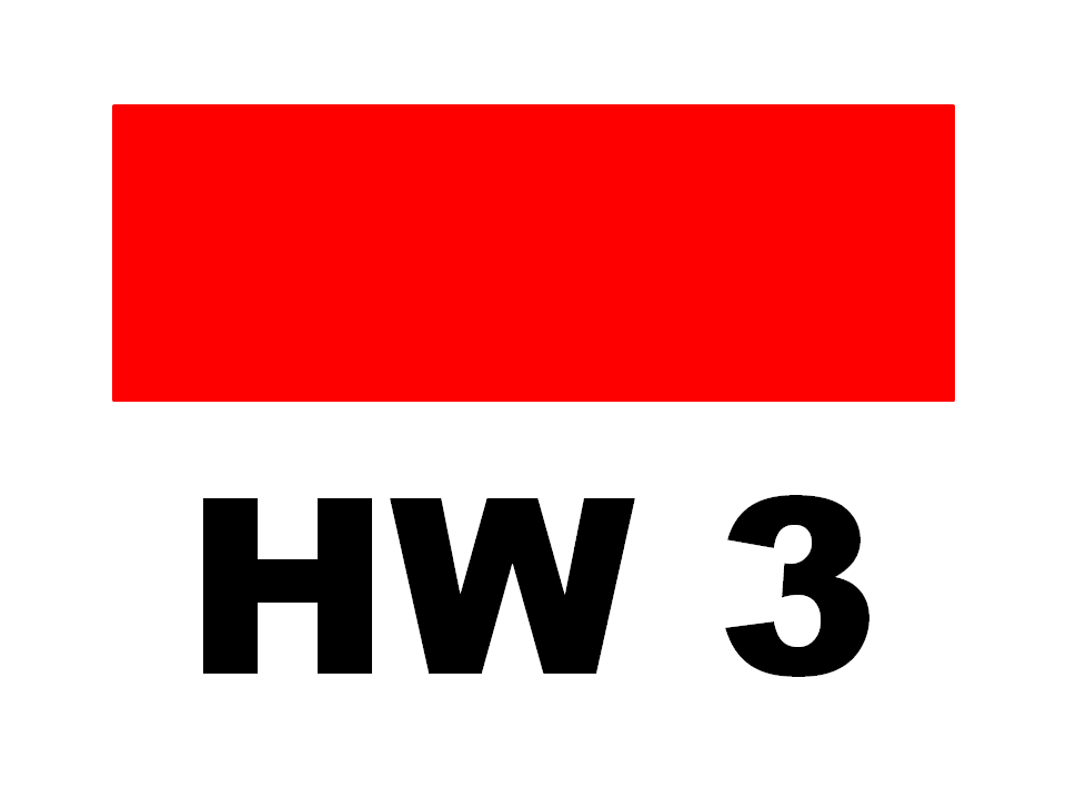 Germany - Baden-Württemberg: "Main-Neckar-Rhein-Weg", hiking sign "HW 3"